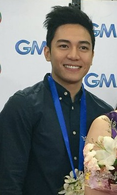 Jak Roberto at the Meant to Be production presentation, November 2016